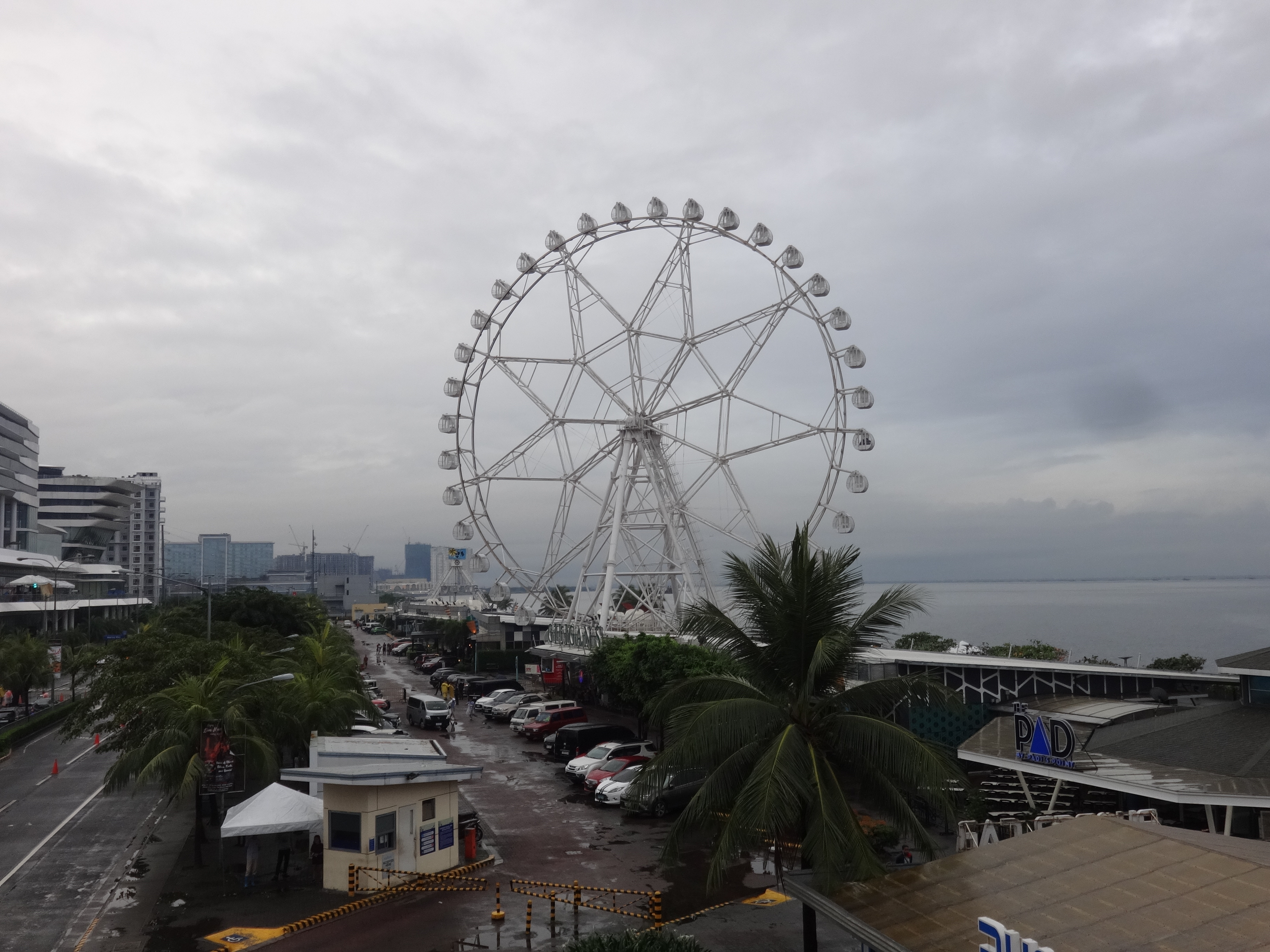 MOA Eye ferris wheel at the SM Mall of Asia Complex, Pasay City